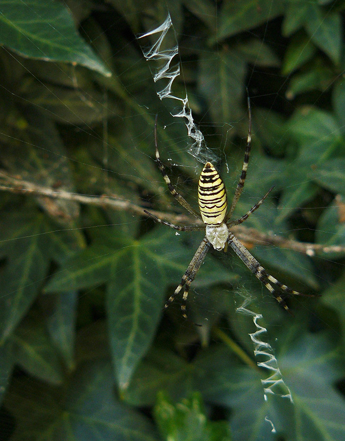 Argiope Bruennichi, probably male.